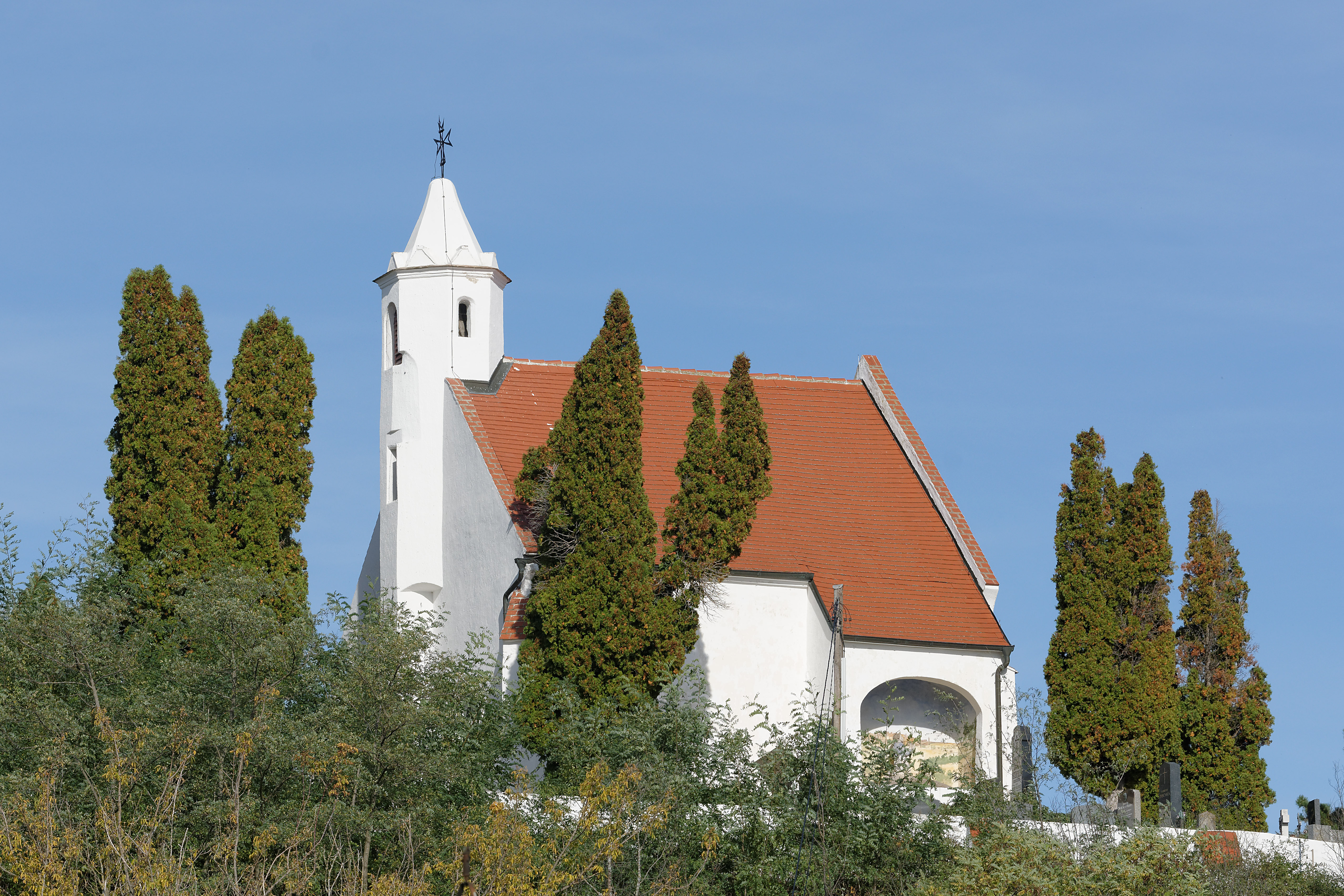 Cemetery chapel at Mailberg, Lower Austria, Austria